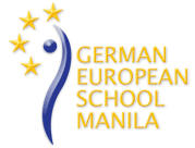 This is the logo of the German European School Manila, an international school in Parañaque City, Philippines.